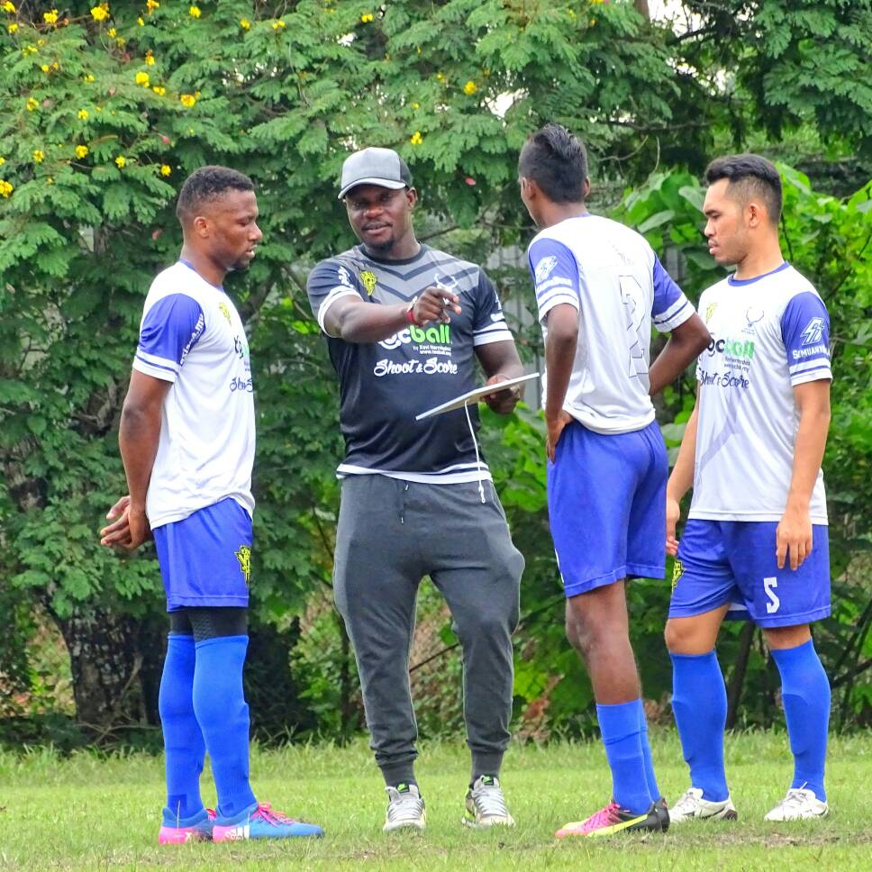 coach ibrahim